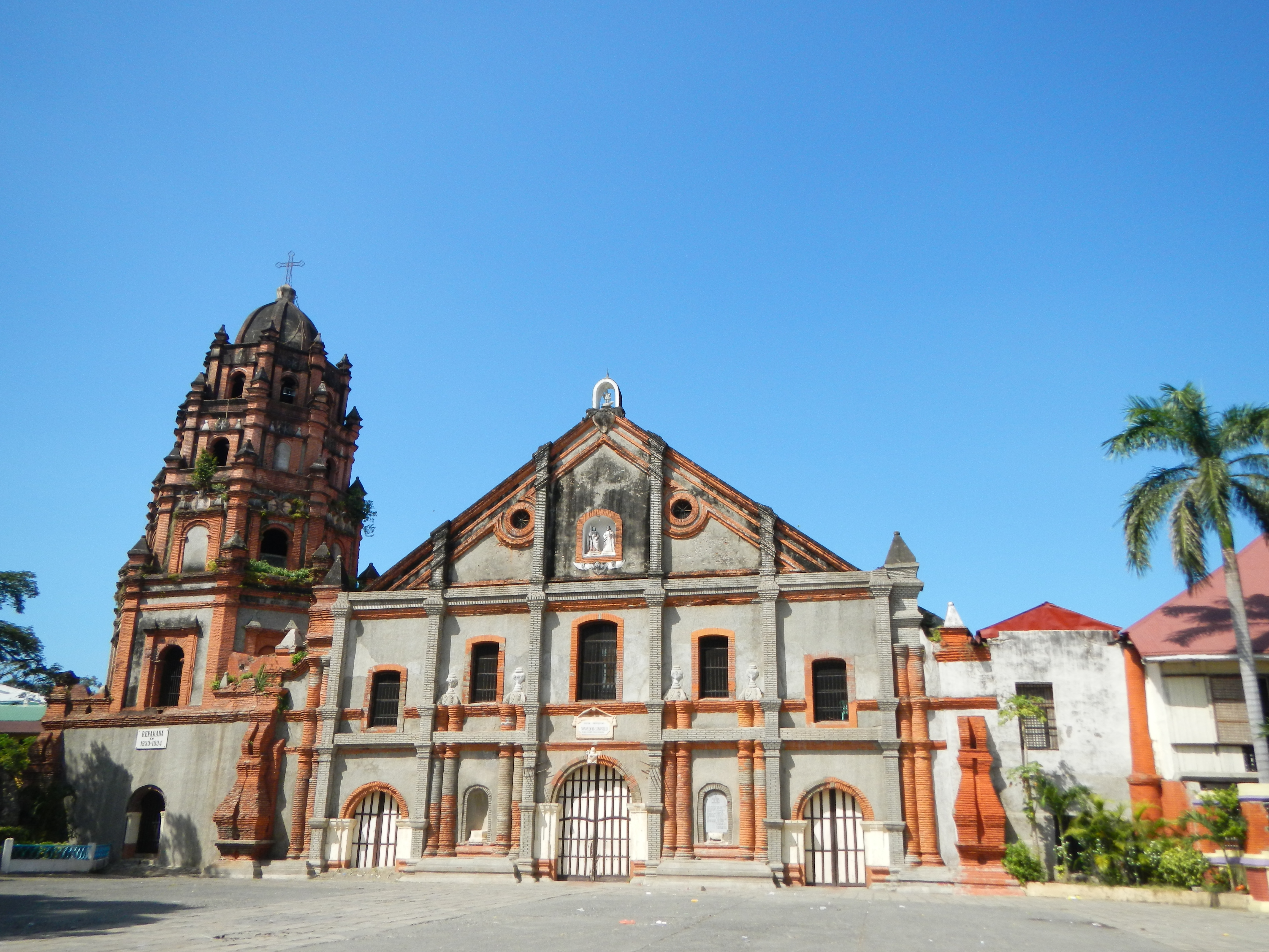 Sts. Peter and Paul Parish Church The Vicariate I:Queen of the Apostles, Roman Catholic Archdiocese of Lingayen-Dagupan Calasiao, Pangasinan[1][2][3]